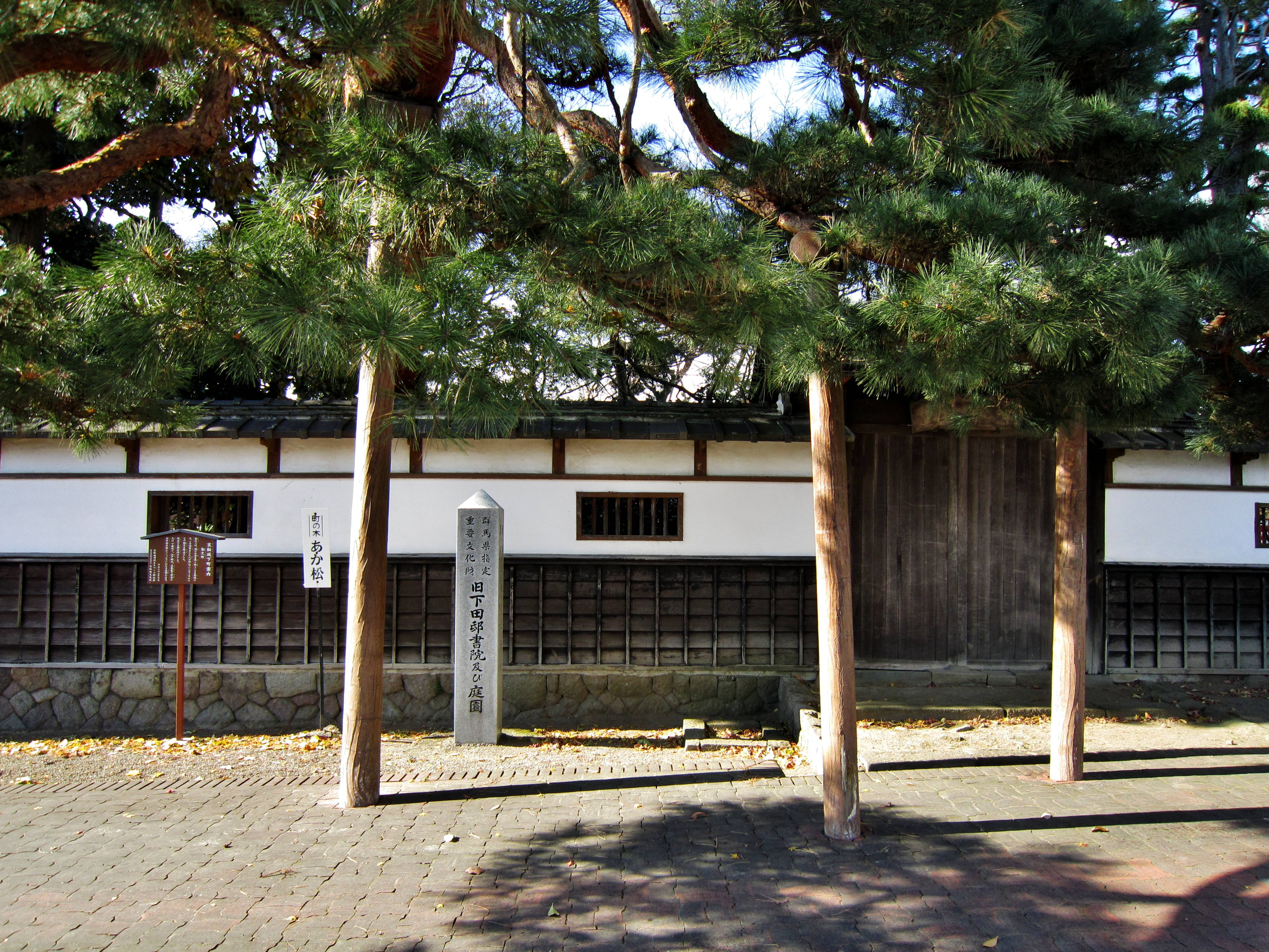 Old Shimoda house fence.